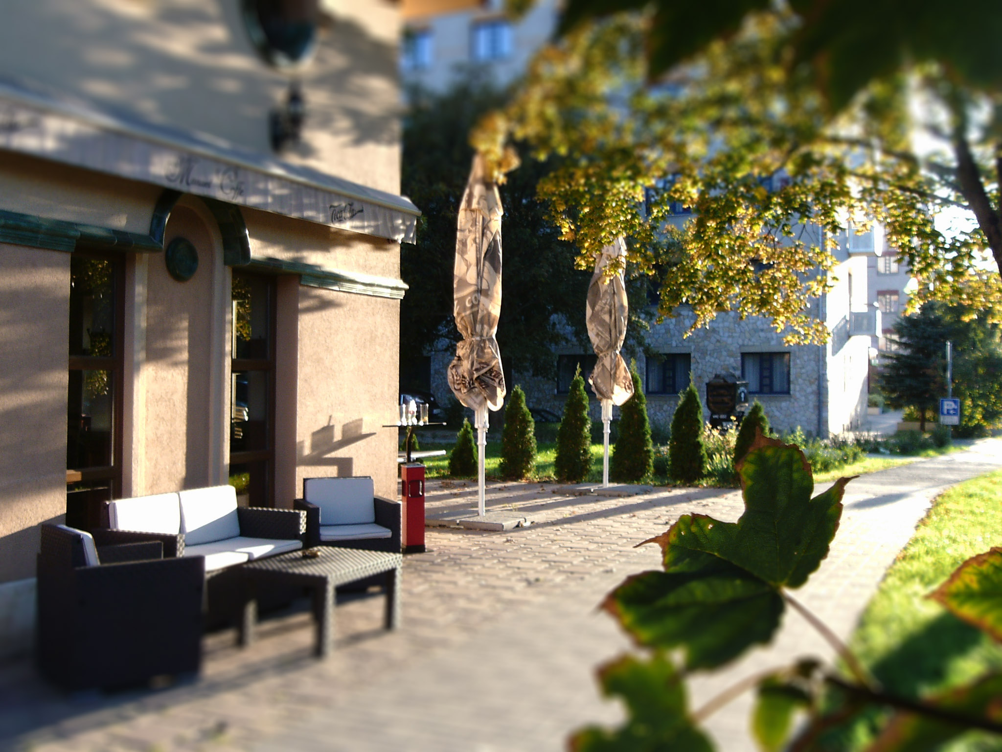 Dunaujvaros, Hungary